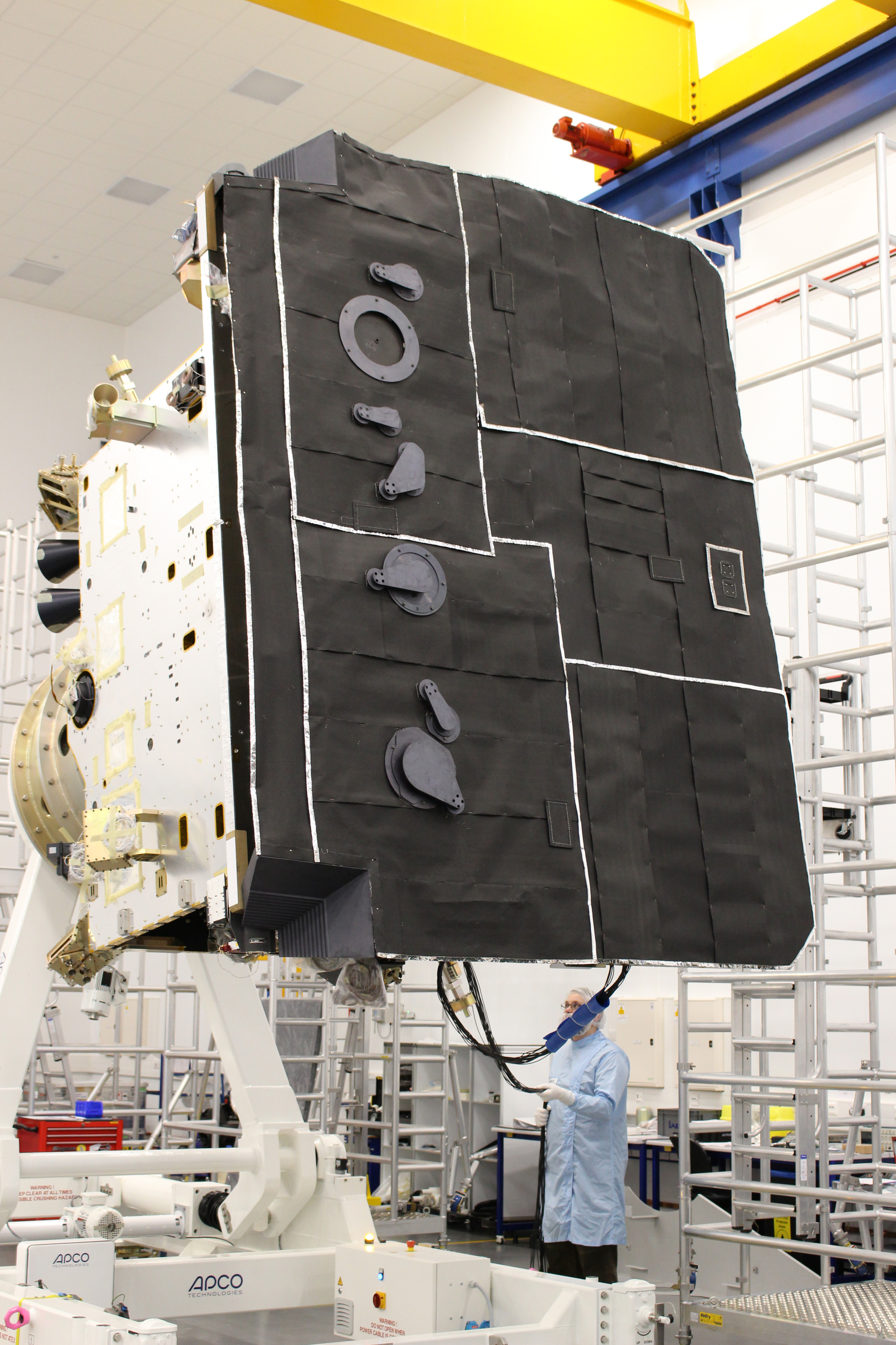 Solar Orbiter's heat shield. This is part of a set of photos showing the Solar Orbiter Structural Thermal Model (a full scale model of the spacecraft, which will be used for testing), taken at the Airbus Defence & Space facility in Stevenage in March 2015. Photo credit: O. Usher (UCL MAPS)